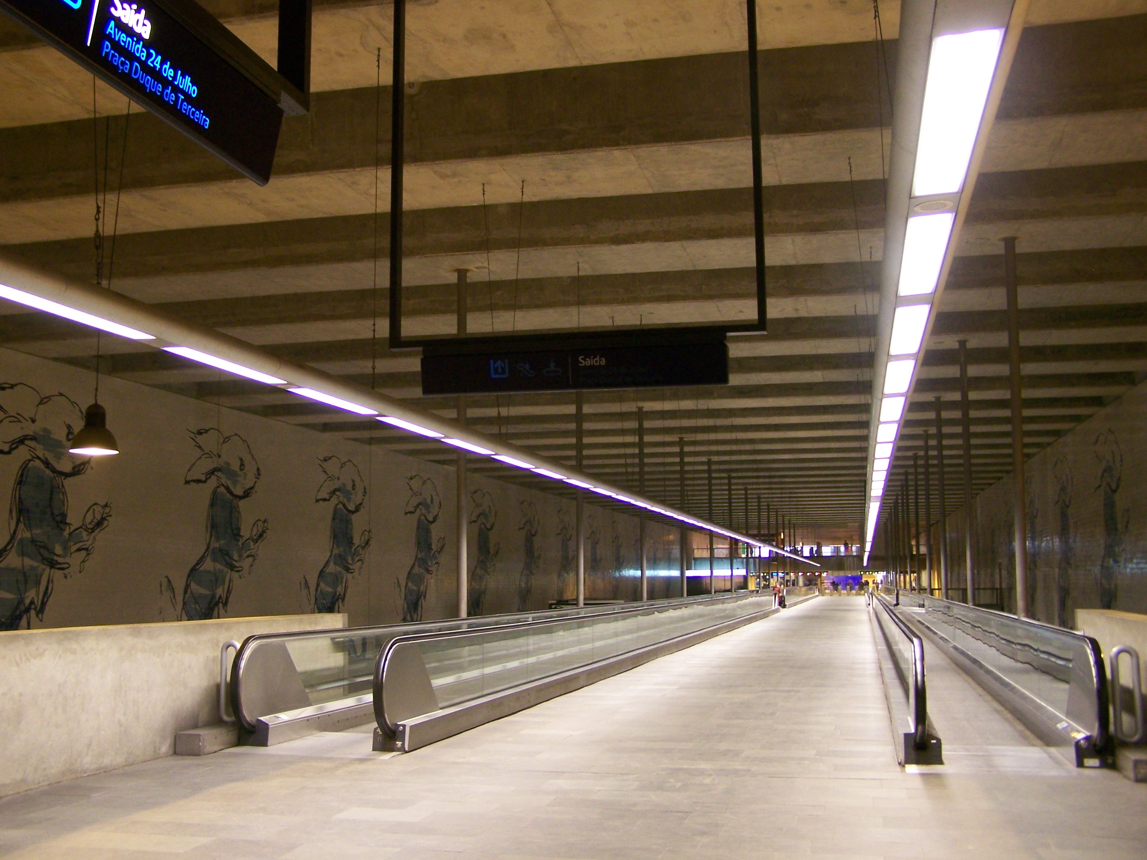 The long sidewalks at Cais do Sodré metro station, linha verde, Lisbon, Portugal